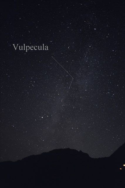 Photography of the constellation Vulpecula, the fox